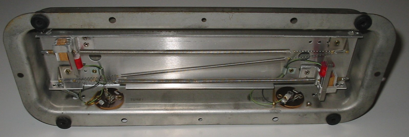 O. C. Electronics, inc. Folded Line reverberation device Manufactured by beautiful girls in Milton, Wis. under controlled atmosphere conditions. U.S. pat. 3,363,202 / Canadian pat. 825,330 Type 60